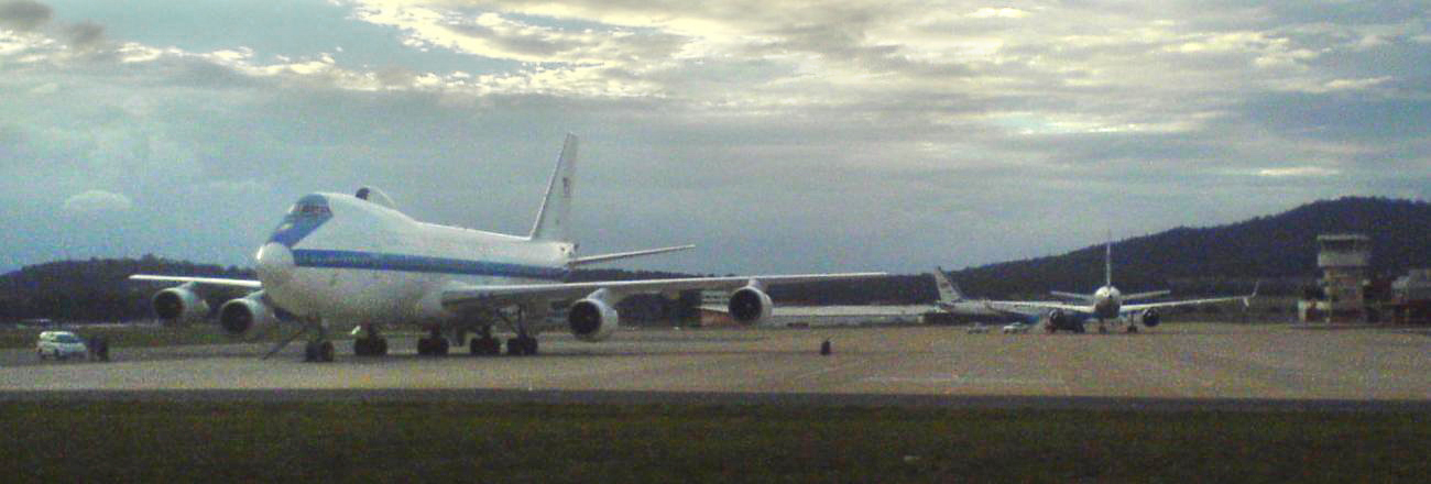 USAF Boeing E-4B Advanced Airborne Command Post ("Nightwatch") and two C-32 passenger transportation aircraft at Royal Australian Air Force support facilities at Fairbairn in Canberra, the national capital of Australia.